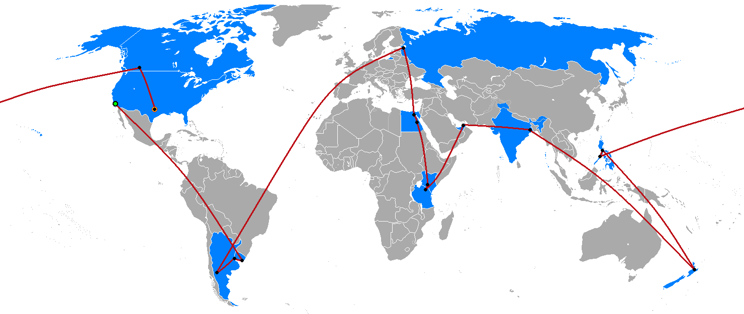 The Route Map of The Amazing Race 5, recreated with black dot leg stops